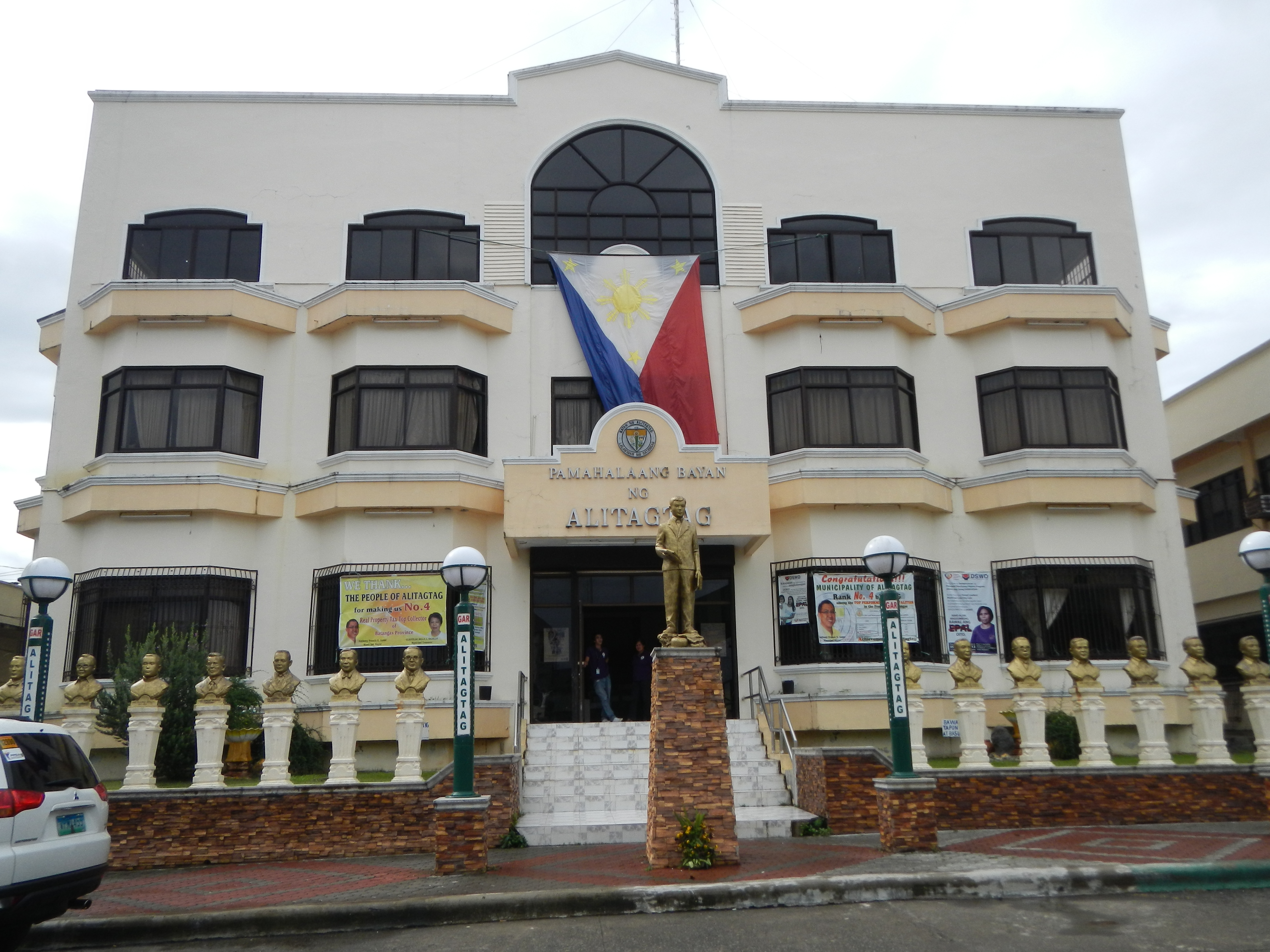 Alitagtag, Batangas[1] --- These are exclusive (solely uploaded to Wikipedia Commons and for Wikipedia, rare and original-unedited) photos of the Downtown, Poblacion, adjacent, nearby and beside each other --- a) Alitagtag Municipal Hall[2] Coordinates: 13°51'58"N 121°0'21"E , including its Mayor's Office and Legislative Session Hall, inter alia; b) Sen. Ralph G. Recto Alitagtag Multi-Purpose Sports Complex[3]; c) Alitagtag Public Market and d) Town Plaza [4] Coordinates: 13°51'55"N 121°0'22"E - Alitagtag, Batangas[5] is a fourth class municipality in the Province of Batangas[6], Philippines. According to the latest census, it has a population of 22,794 people in 3,708 households.[7] This place is situated in Batangas, Region 4, Philippines, its geographical coordinates are 13° 51' 54" North, 121° 0' 19" East and its original name (with diacritics) is Alitagtag, Batangas, Region 4, Philippines, AsiaMap of Alitagtag [8] ZIP Code: 4205 Coordinates: 13°52'16"N 121°0'58"E; e) Alitagtag Holy Cross Parish Church[9]; Town Proper [10] Coordinates: 13°51'54"N 121°0'11"EMap Binukalan Shrine of Talagtag Holy Cross of Binukalan ithe miraculous Cross of Binukalan which was found on the exact spot where the well is nowthe miraculous well of Binukalan Shrine[11]